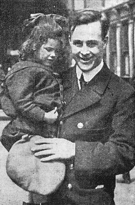 Barbara McDermott (June 15, 1912 – April 12, 2008[1]) was the last American survivor of the sinking of the RMS Lusitania on May 7, 1915, and one of the last two survivors